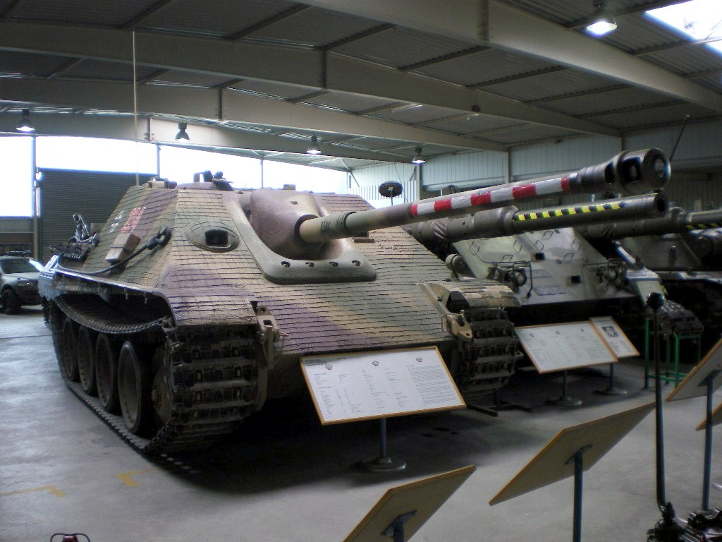 Picture of Jagdpanther at Wehrtechnische Studiensammlung in Koblenz, Germany